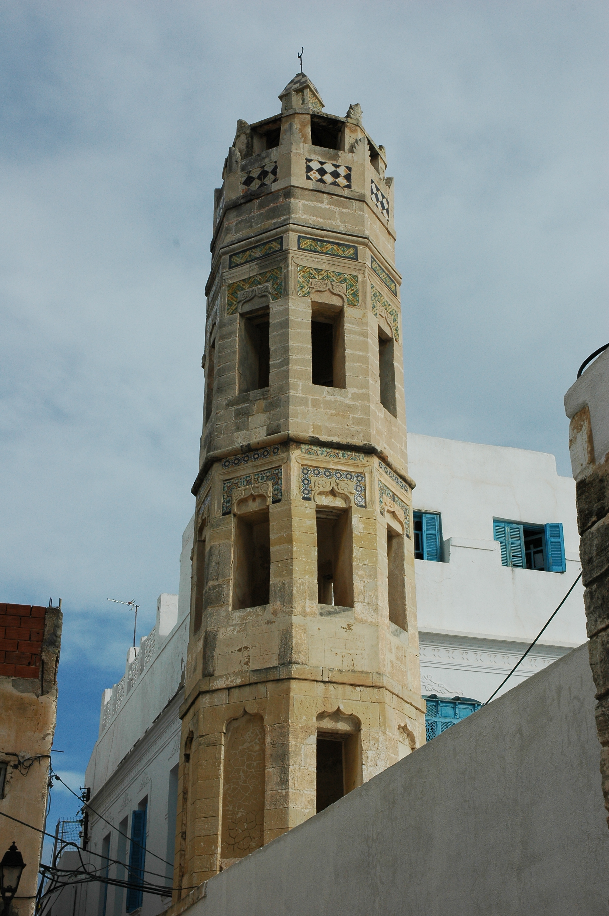 Sousse in Tunisia